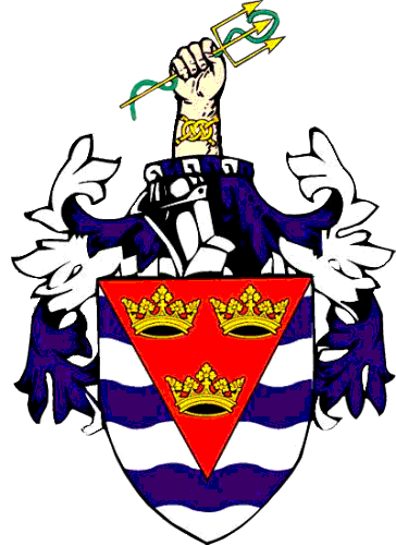 Arms of The Isle of Ely County Council